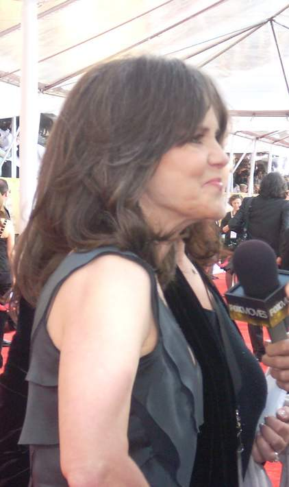 Actress Sally Field, star "Brothers & Sisters", at the 15th Screen Actors Guild Awards